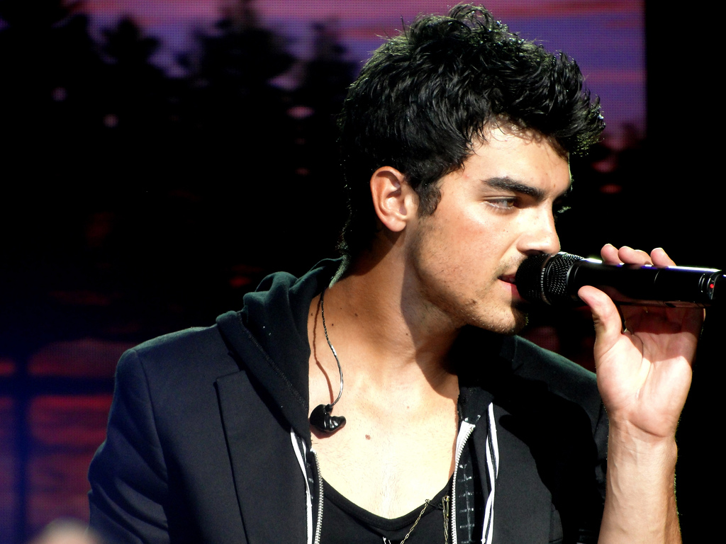 Jonas Brothers Live In Concert and The Cast of Camp Rock 2, September 2nd, 2010.